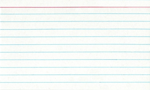 Scanned image of standard 3x5 notecard / index card. Notecards rule.